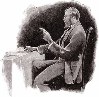 Illustration of the Sherlock Holmes short story The Five Orange Pips, which appeared in The Strand Magazine in November, 1891. Original caption was "WHAT ON EARTH DOES THIS MEAN?"